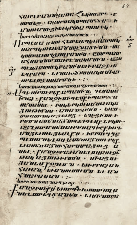 This is the only copy surviving of the theological work of Timothy Ailuros, which was originally written in Greek